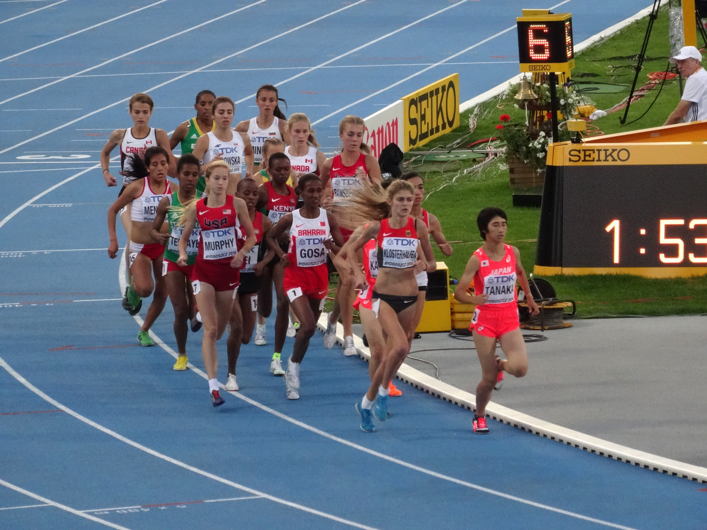 2016 IAAF World U20 Championships in Bydgoszcz, 3000m women final